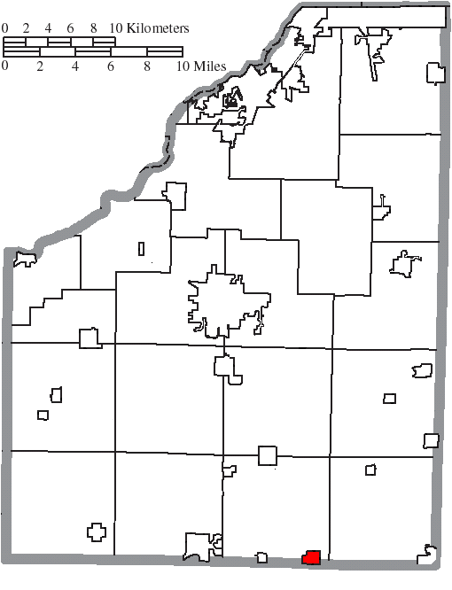 Map of the municipal and township boundaries of Wood County, Ohio, United States, as of the 2000 census, with the location of the village of Bloomdale highlighted. Township borders are shown only in unincorporated areas in order to differentiate incorporated and unincorporated areas more clearly.